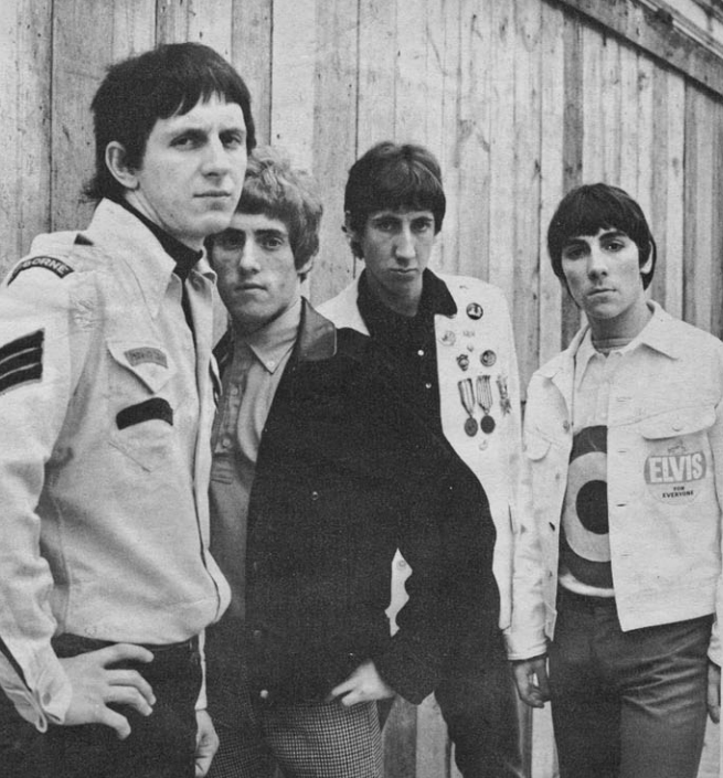 English rock band the Who, pictured here in 1965. Left to right: John Entwistle, Roger Daltrey, Pete Townshend and Keith Moon.